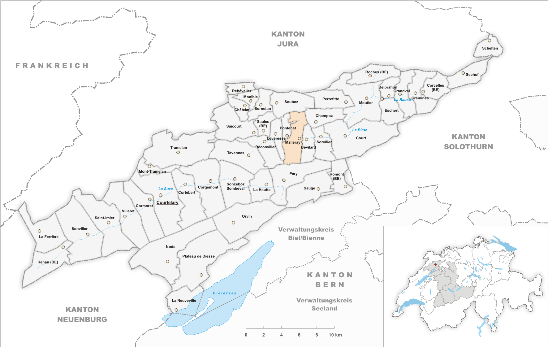 Municipality Malleray